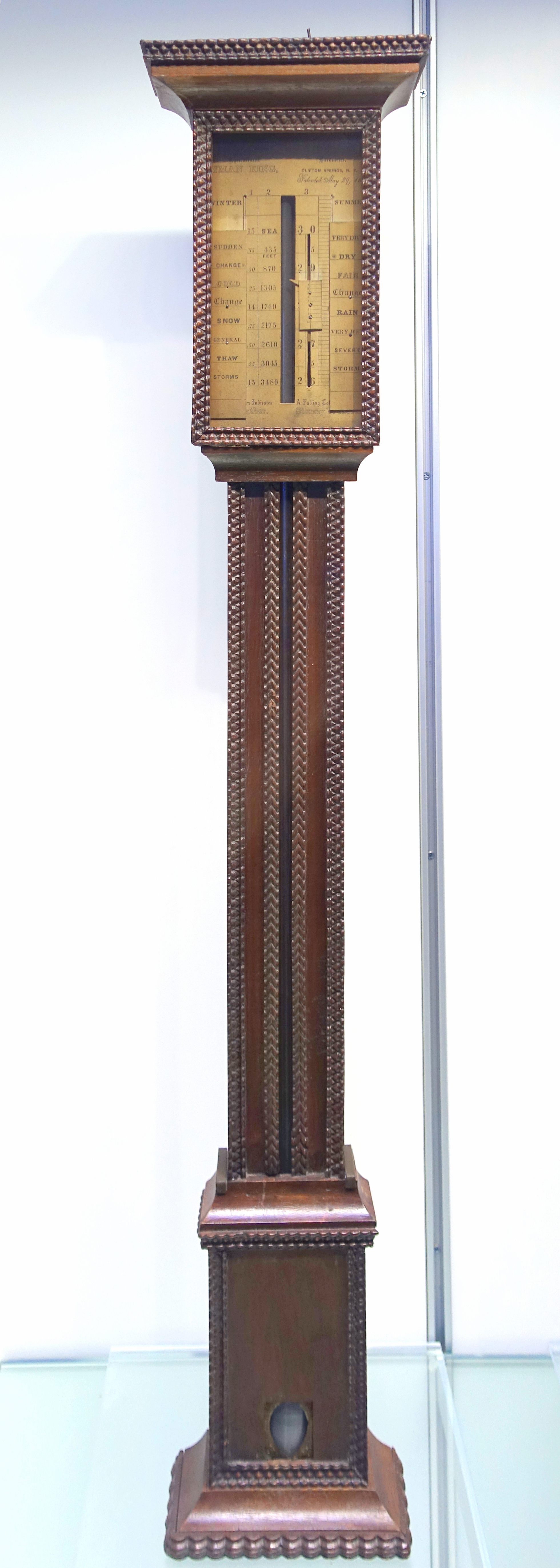 Exhibit in the Museum of Science and Industry, Chicago, Illinois, USA.